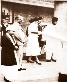 Professor V R Ramachandra Dikshitar with His Excellency Lord Erskine, Governor of Madras and his wife Lady Erskine during the Tri Centenary Celebrations of the City of Madras in 1939.